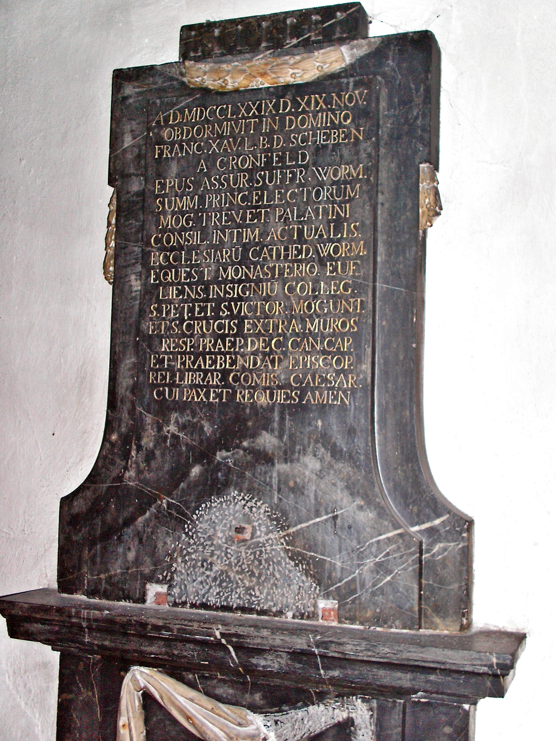 Beschädigtes Epitaph des Wormser Weihbischofs Franz Xaver Anton von Scheben (1711-1779), Martinskirche Worms